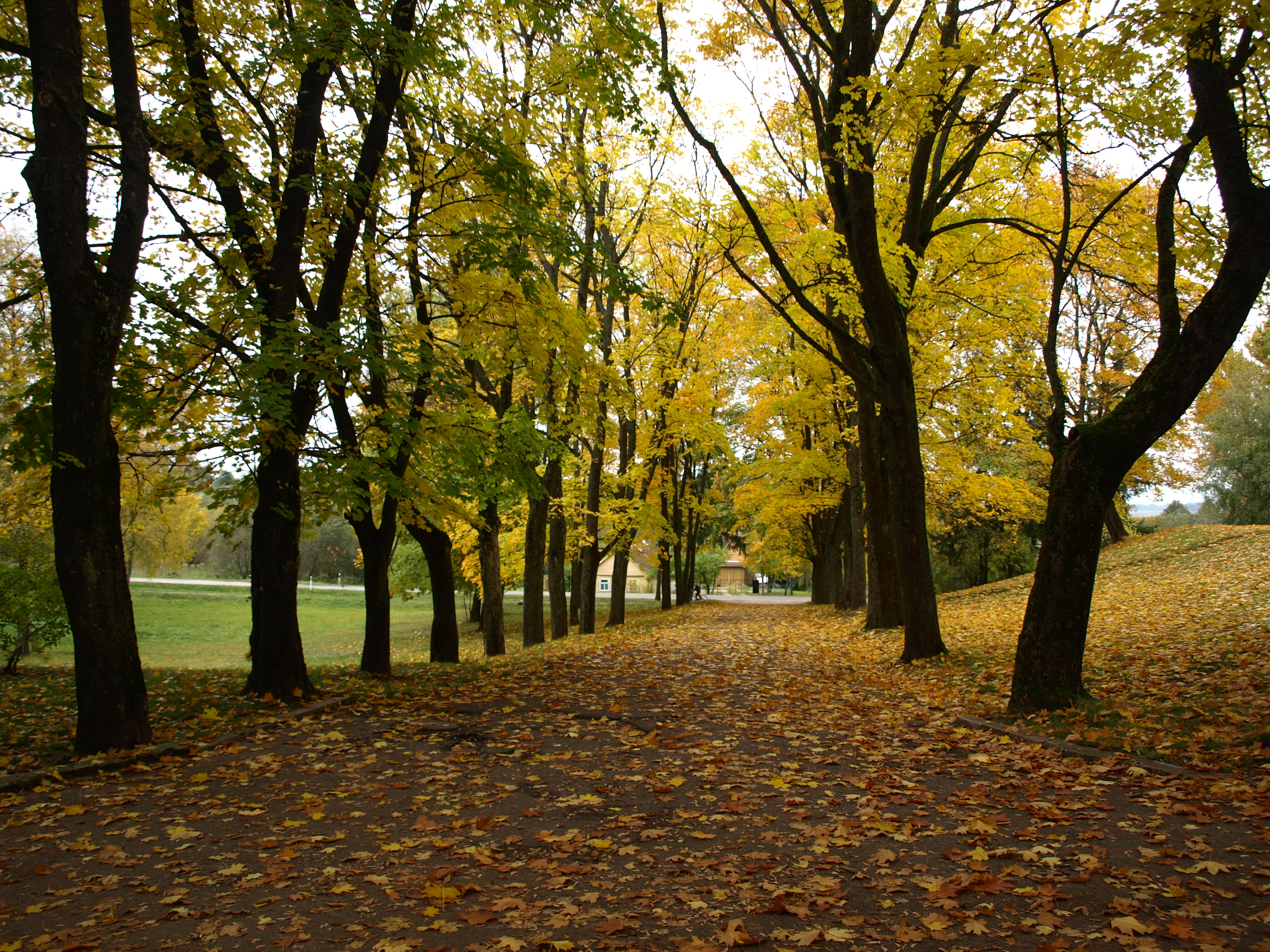 Mūro Strėvininkai, Kaišiadorys district